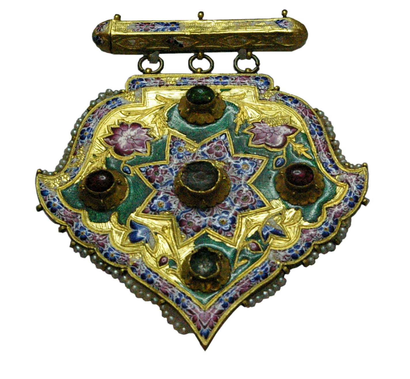 Qajar era jewel (19th. c.) Azerbaijan Museum, Tabriz (Iran).